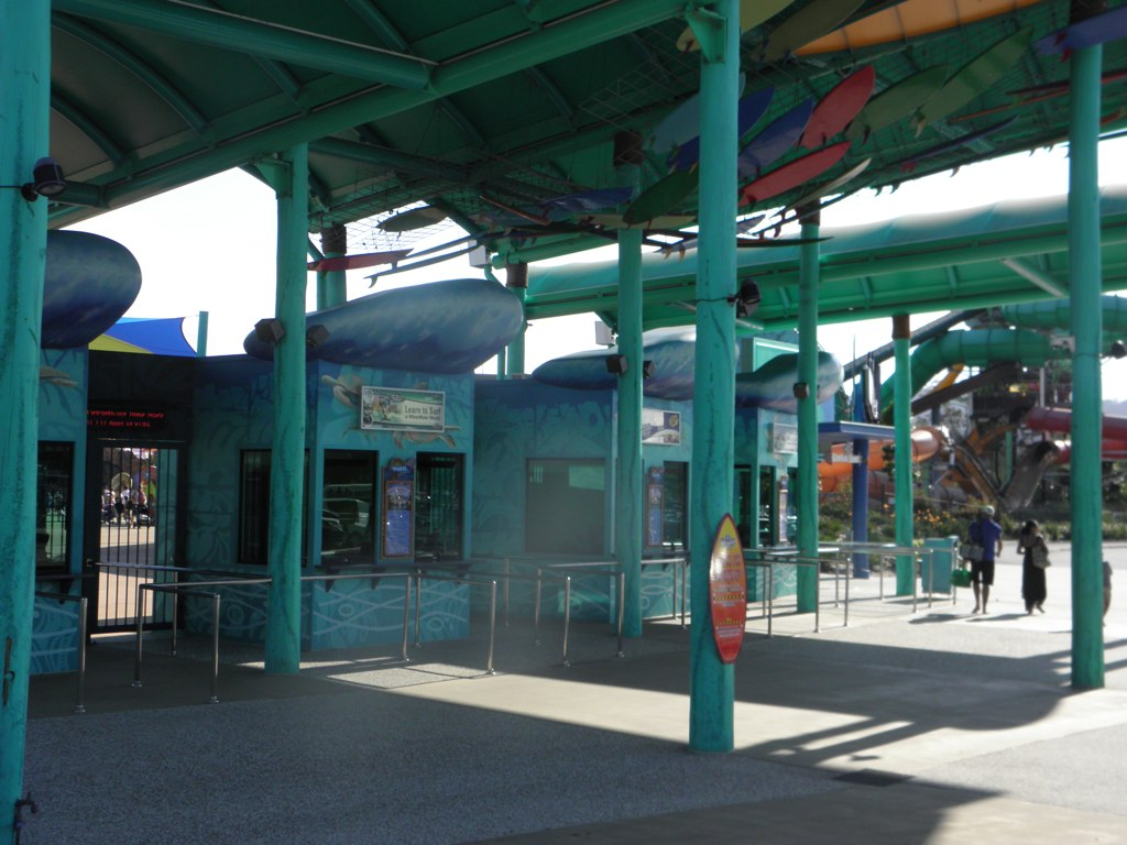 The entrance gates of WhiteWater World, Gold Coast, Australia.